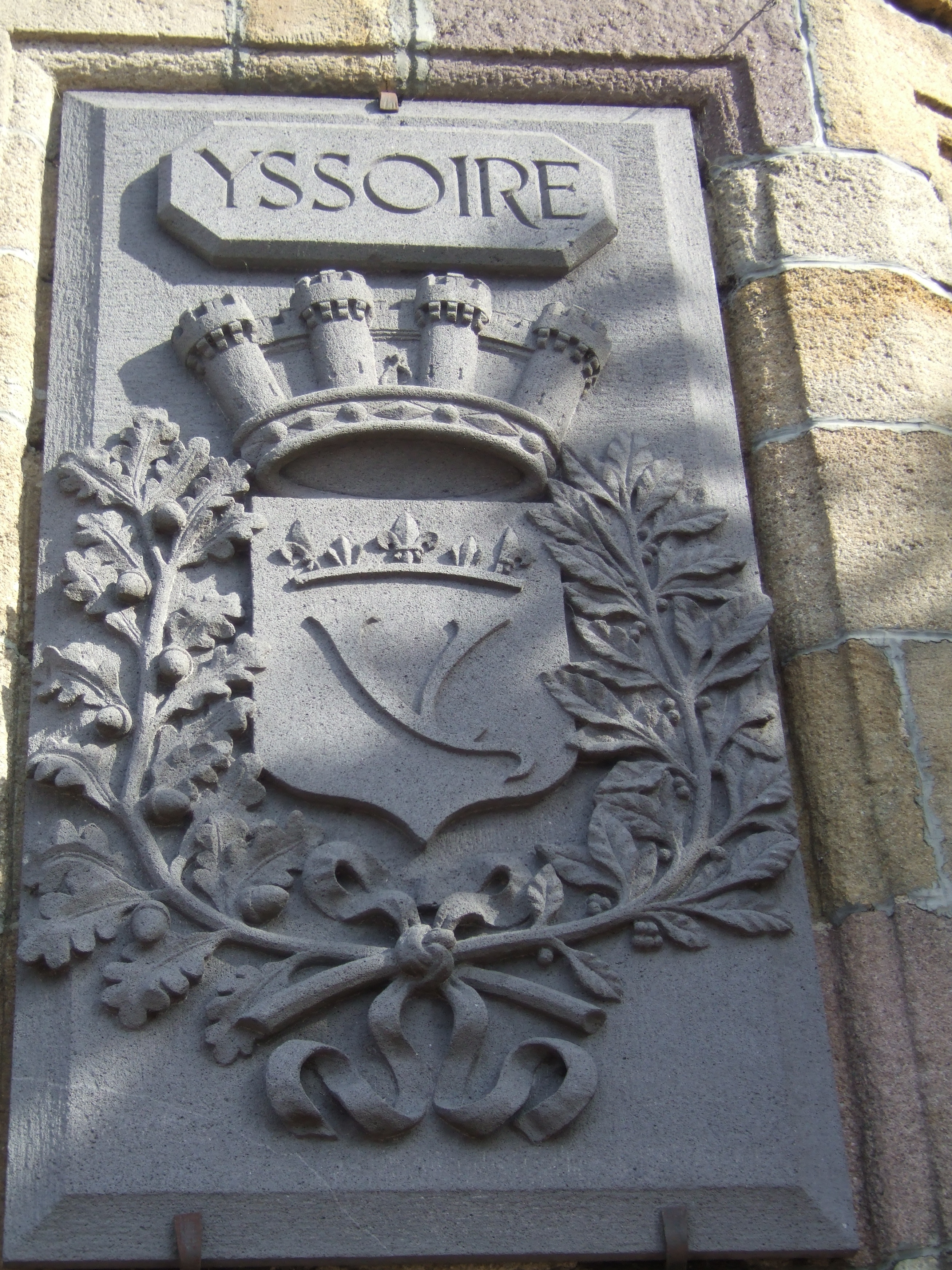 Coat of arms of the French city of Issoire on the east gate wall